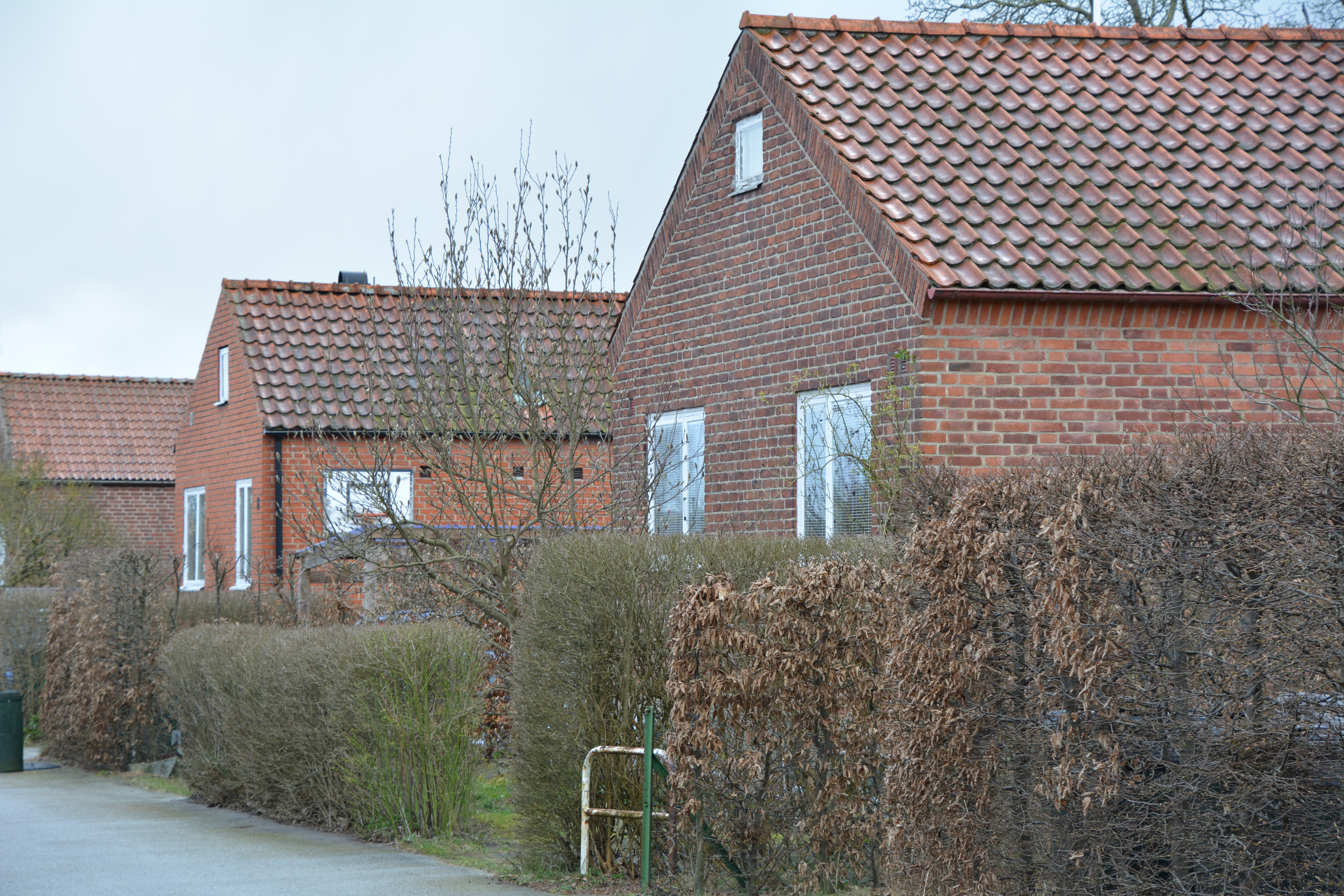 Lervägen, Lund, radhus av Ingeborg Hammarskjöld-Reiz